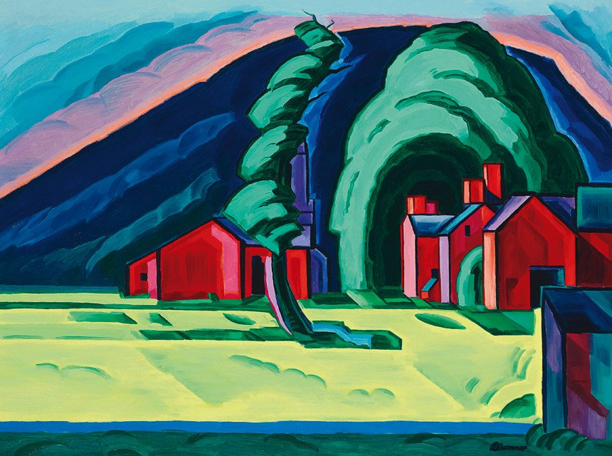 Illusion of a Prairie, New Jersey (Red Farm at Pochuck), painting by Oscar Floranius Bluemner, 1915